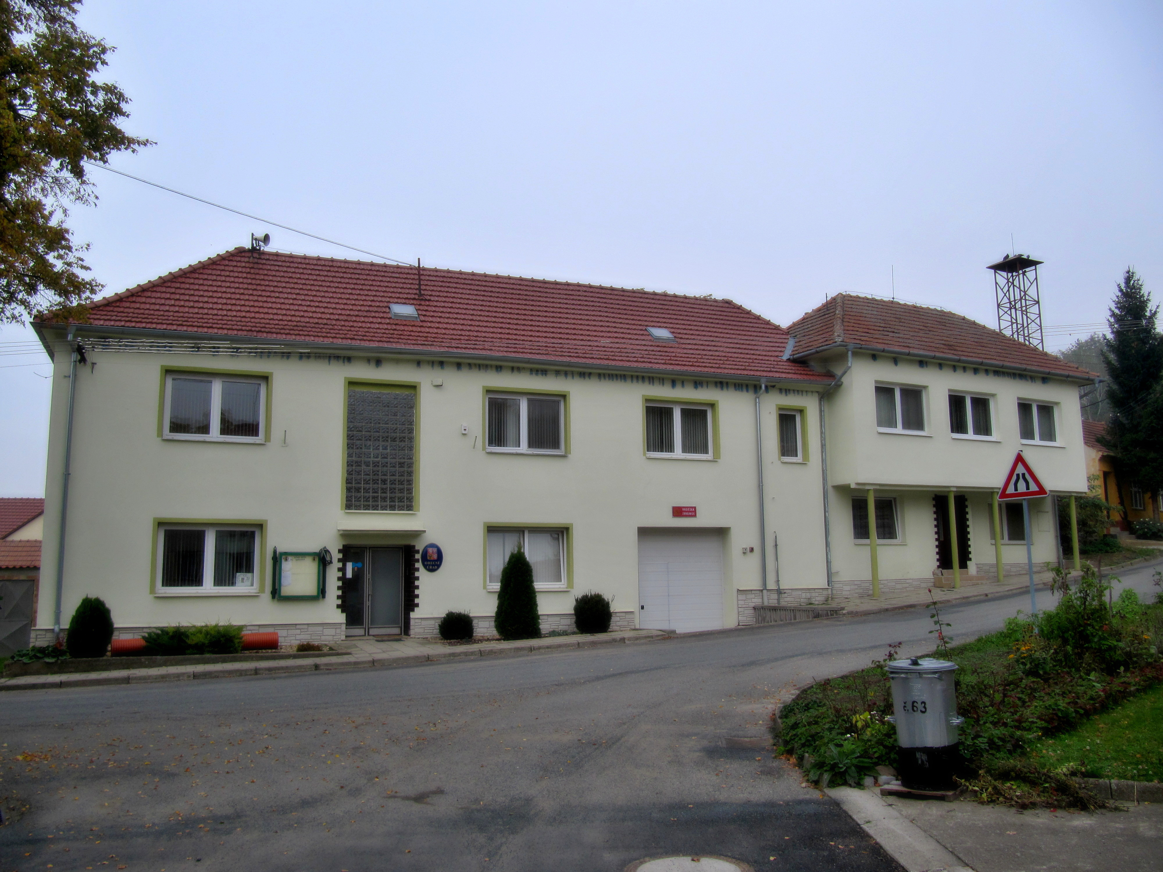 Rašovice in Vyškov District, Czech Republic. Municipal office.